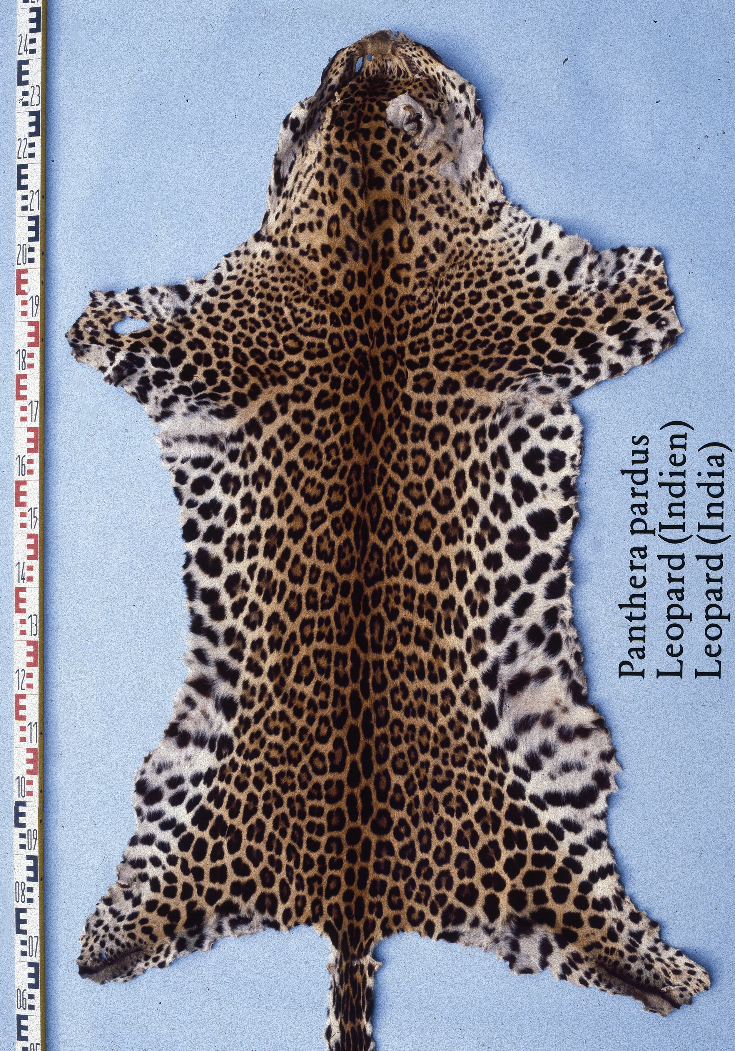 Panther skin (India) (Panthera pardus). Fur skin collection, Bundes-Pelzfachschule, Frankfurt/Main, Germany